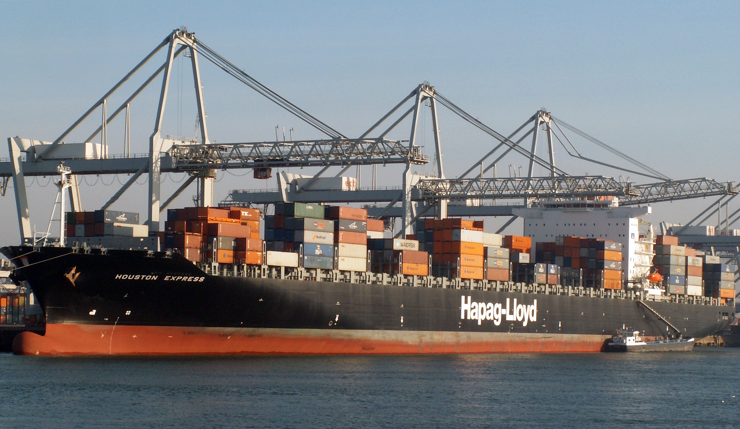 s, IMO 9294991 leaving Port of Rotterdam, Holland 23-Jan-2006.